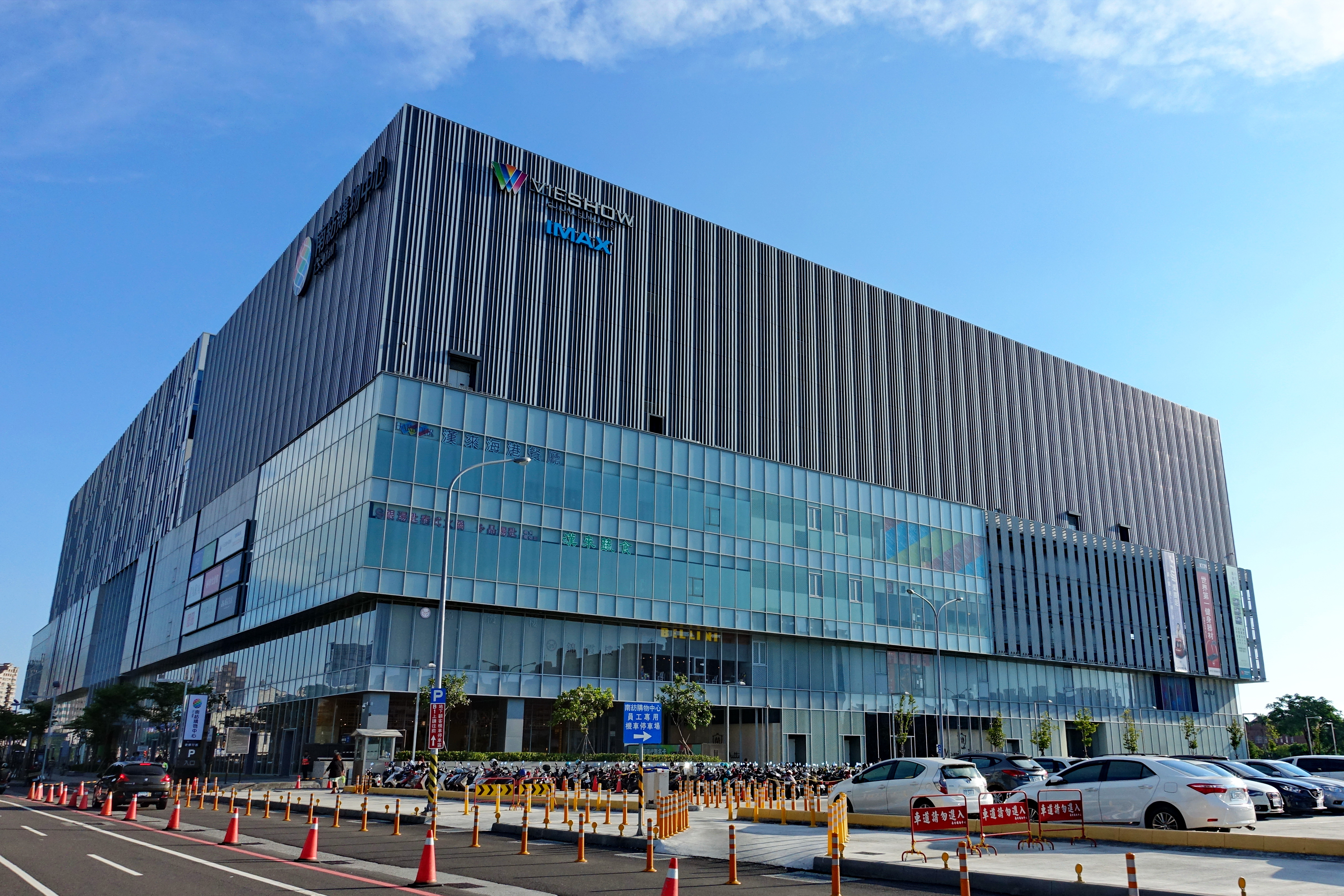 VIESHOW Cinemas, T.S. Mall, Tainan City, Taiwan.